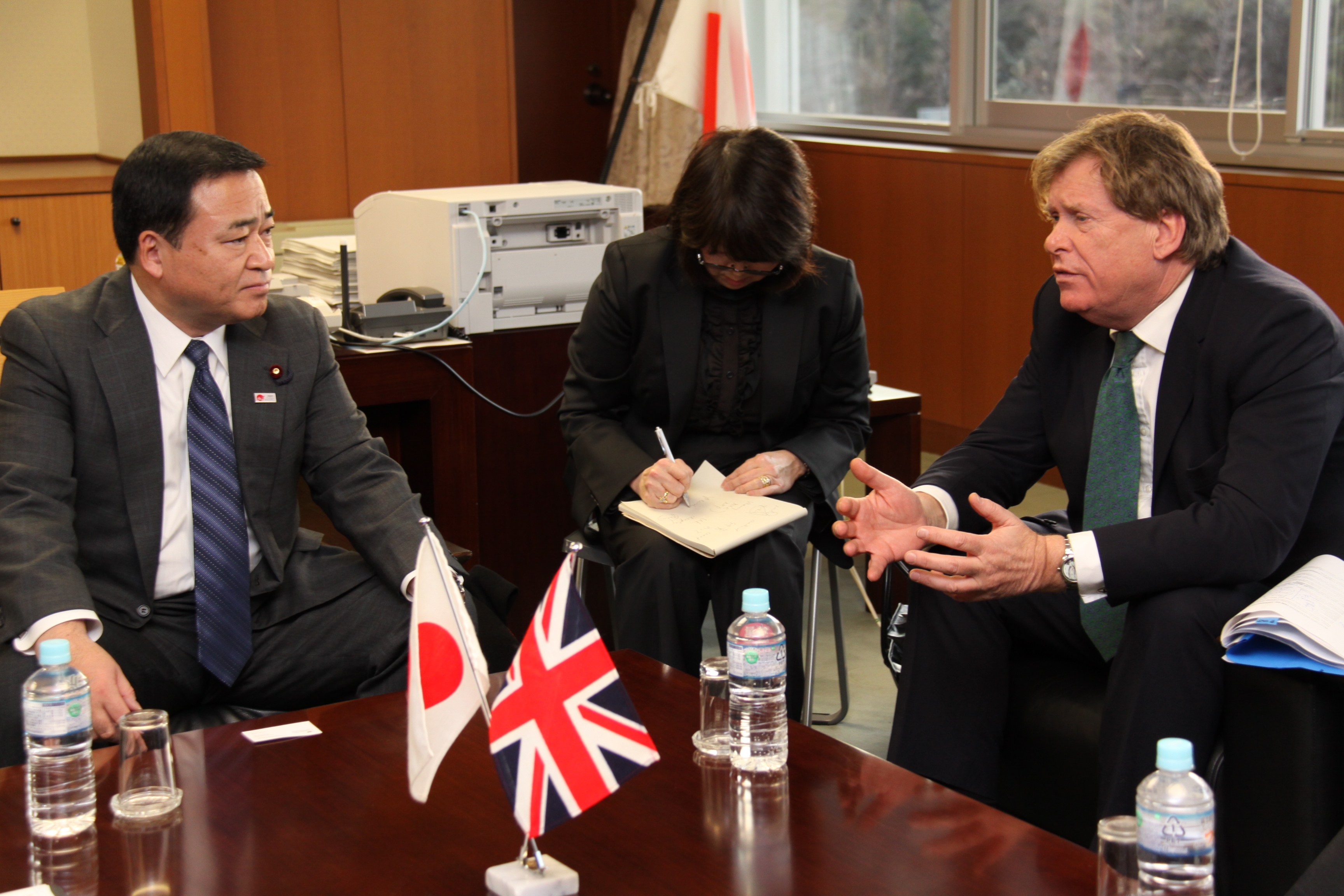 Simon Burns, Minister of State for Transport, talked with Hiroshi Kajiyama, Senior Vice-Minister of Land, Infrastructure, Transport and Tourism, at the Ministry of Land, Infrastructure, Transport and Tourism in Chiyoda Ward, Tōkyō Metropolis on February 20, 2013.